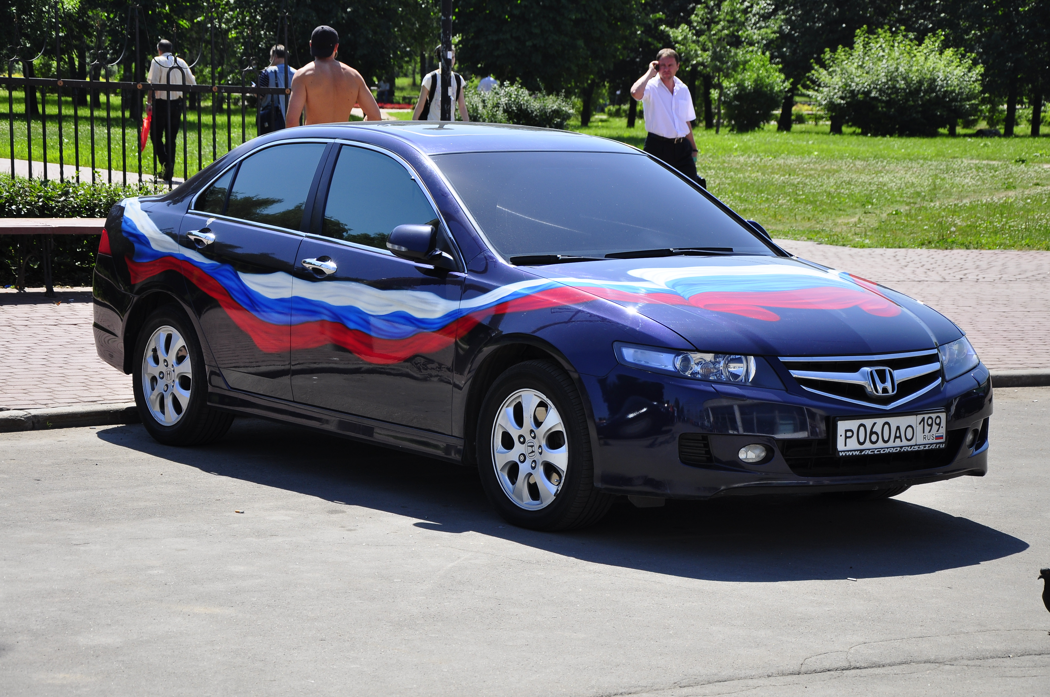 Russians appeared to be one of the most 'flag-proud' people we have come across on our travels so far. That probably shouldn't come as a big surprise, but it somehow always amazes me how a couple of coloured bands of fabric can instil such strong emotions in human beings. But then again, that's probably why I do research on collective identities ( .